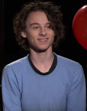 Wyatt Oleff in a 2018 MTV interview